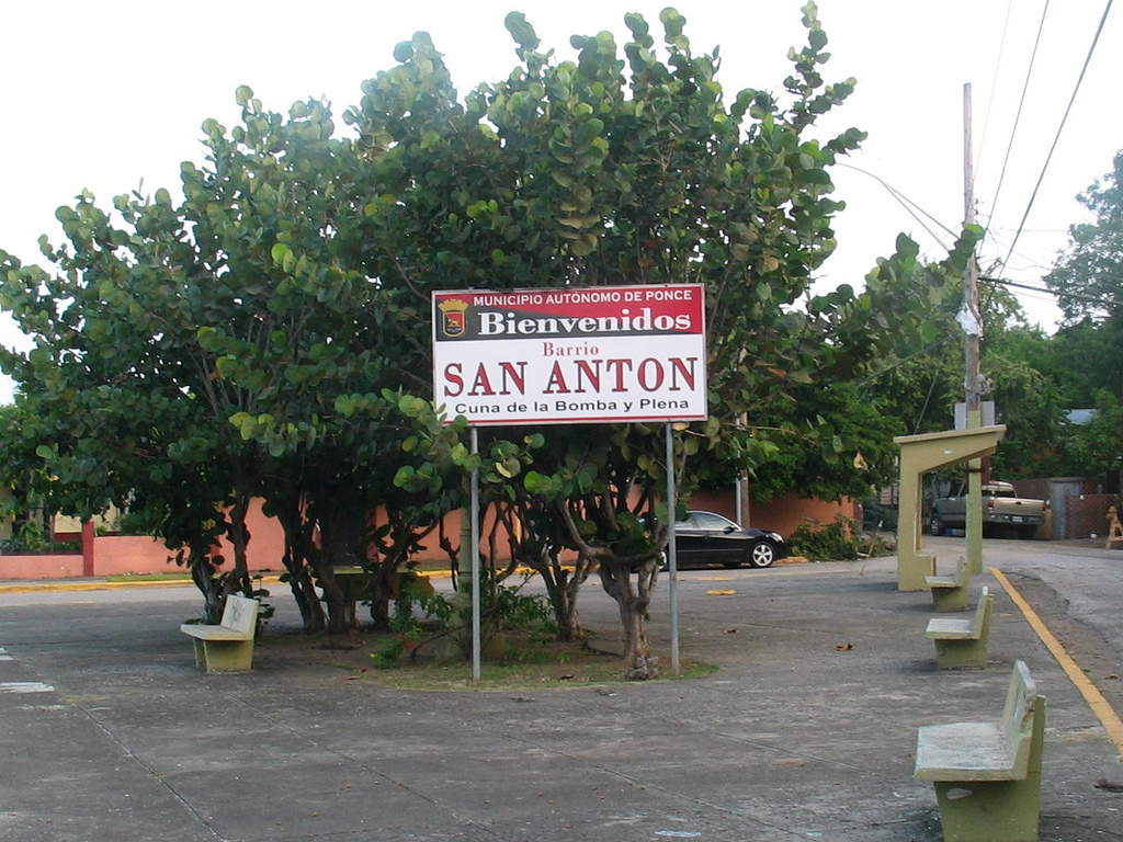 Barrio San Anton, Ponce, Puerto Rico. The motto reads: "Cuna de la bomba y plena", meaning "Cradle of the [Puerto Rican] bomba and plena", which are two types of dance developed on the island.